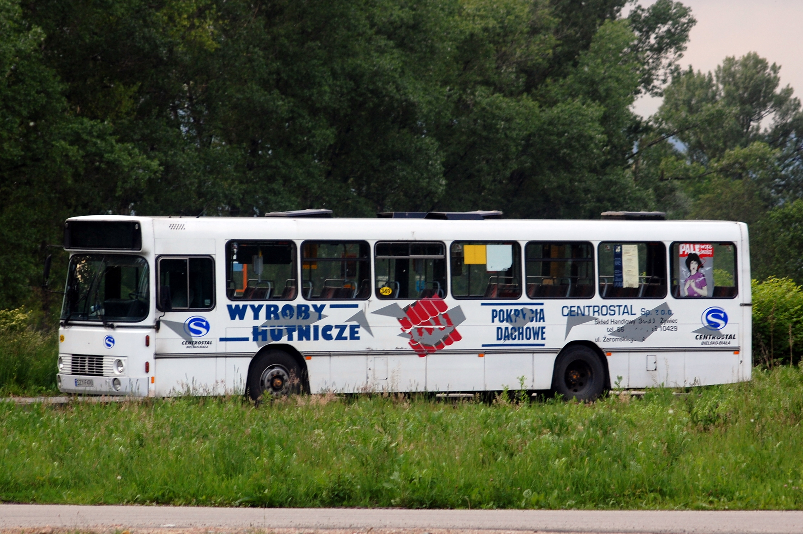 DAB 7-1200B bus (#349) in Żywiec, Poland. Built 1991, MZK Żywiec operator.